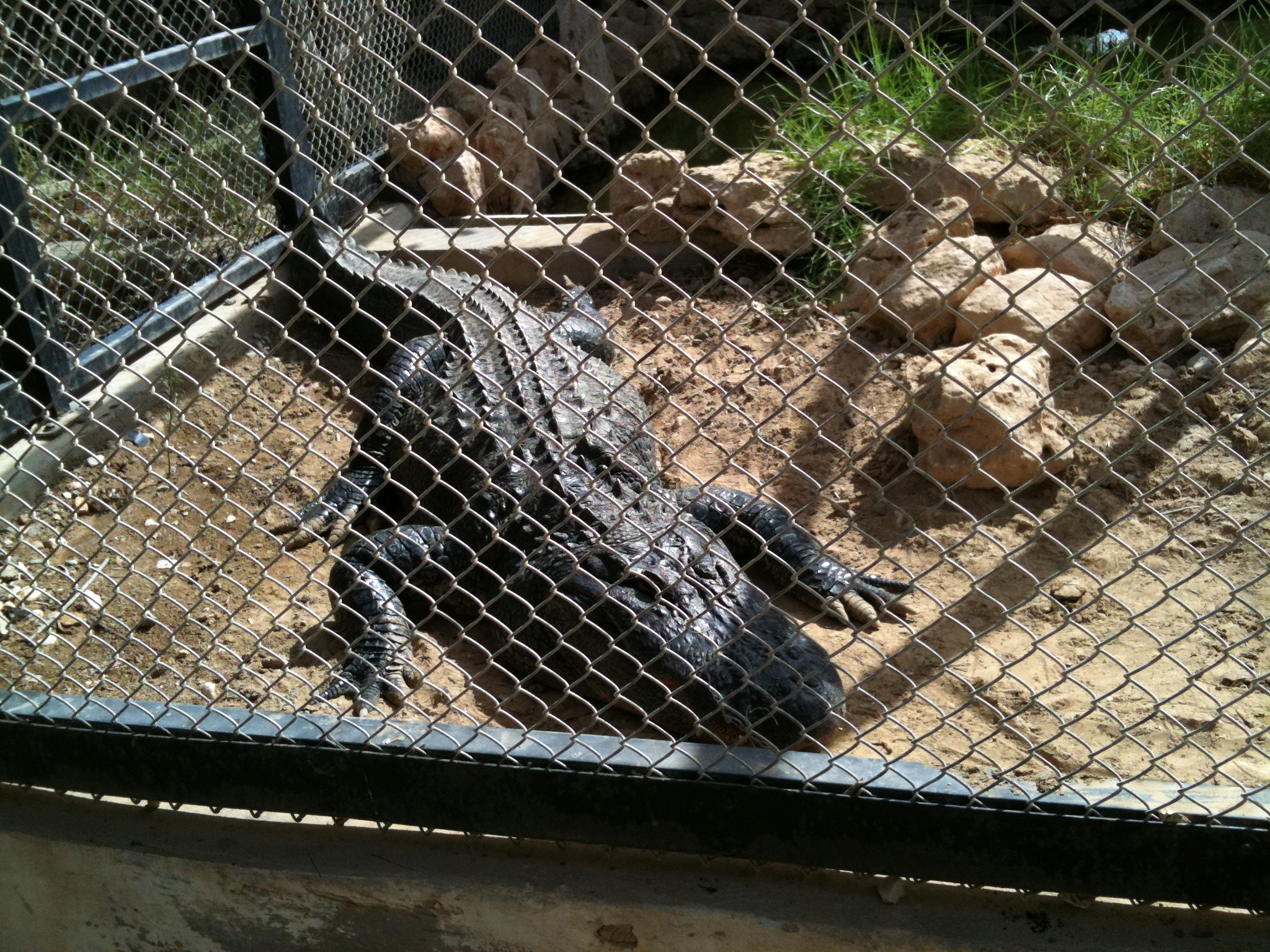 Negev Zoo Beersheva Israel